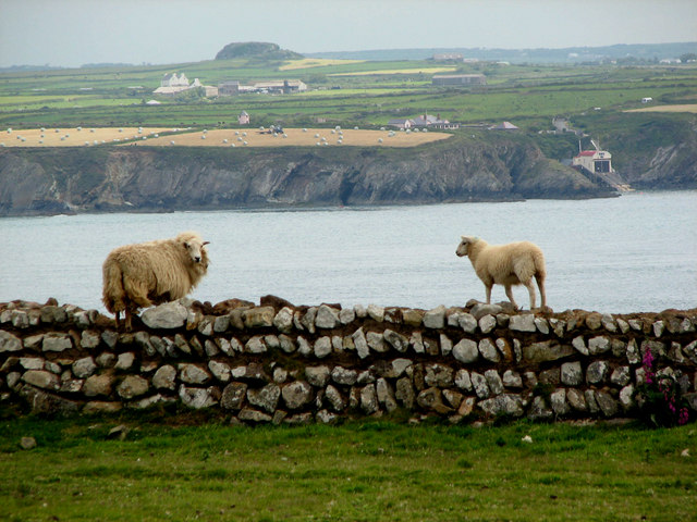 Dry Stone Sheep, Ramsey Island You can see the mainland in the background, to the right is St Justinian Lifeboat Station (the ferry departure point for Ramsey Island). 2008 was the first time in 8 years Ramsey Island's sheep had lambs. See news article link